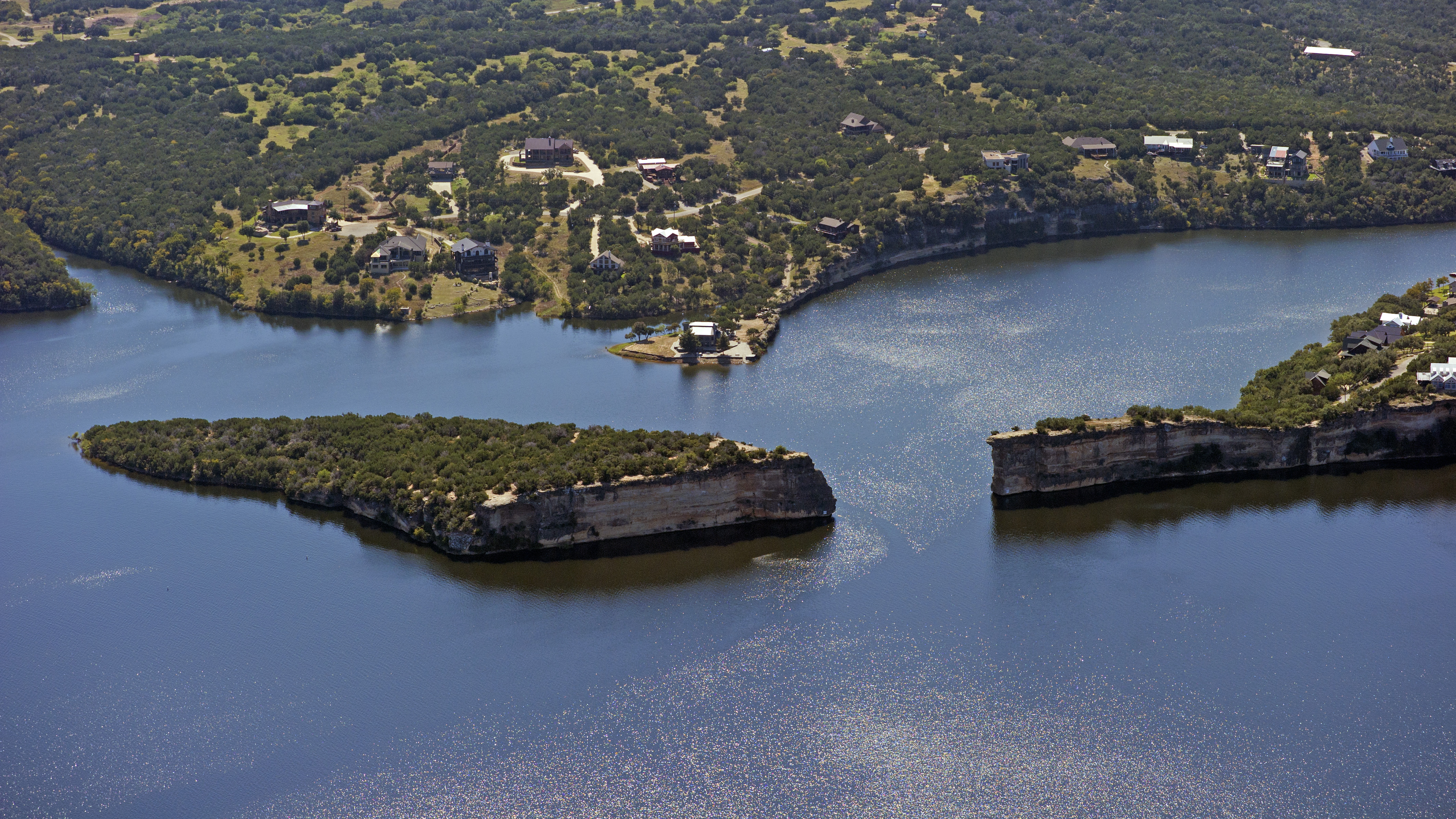 Possum Kingdom Lake "Hell's Gate", Texas